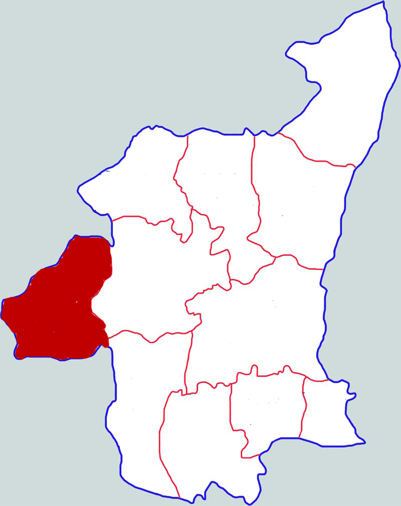 Location of Fuping county in Weinan city, China